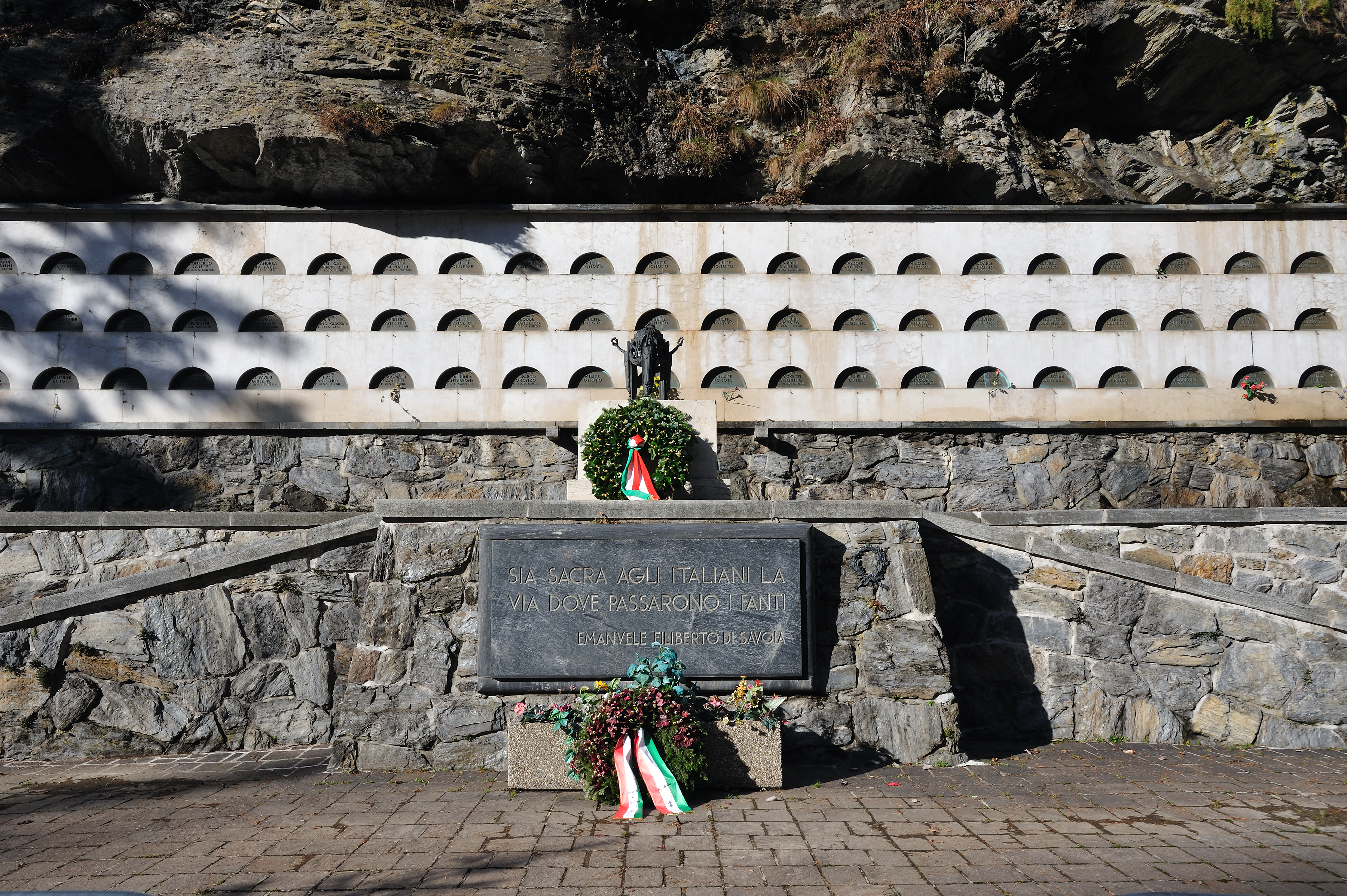 Fascist italian ossuary near Gossensass (South Tyrol)